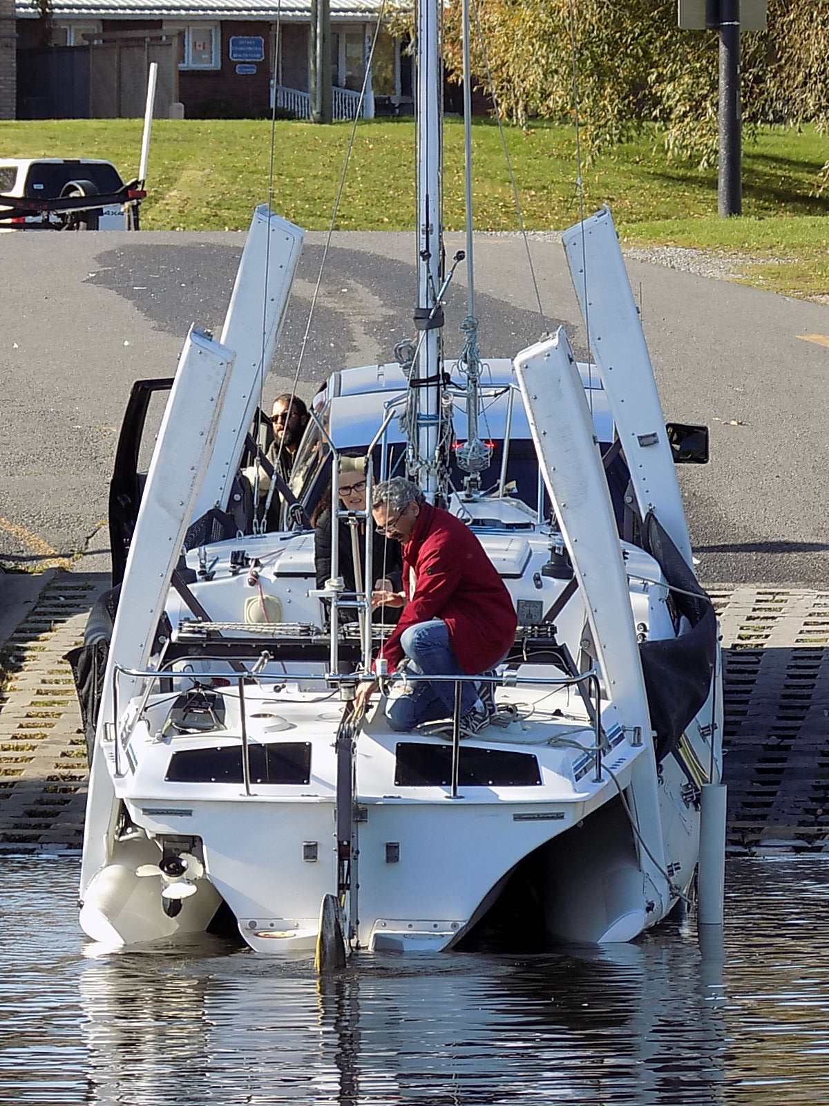 A Corsair F-27 Sport Cruiser trimaran sailboat named Zephyr is loaded onto a trailer on a boat ramp, with its pontoons folded.